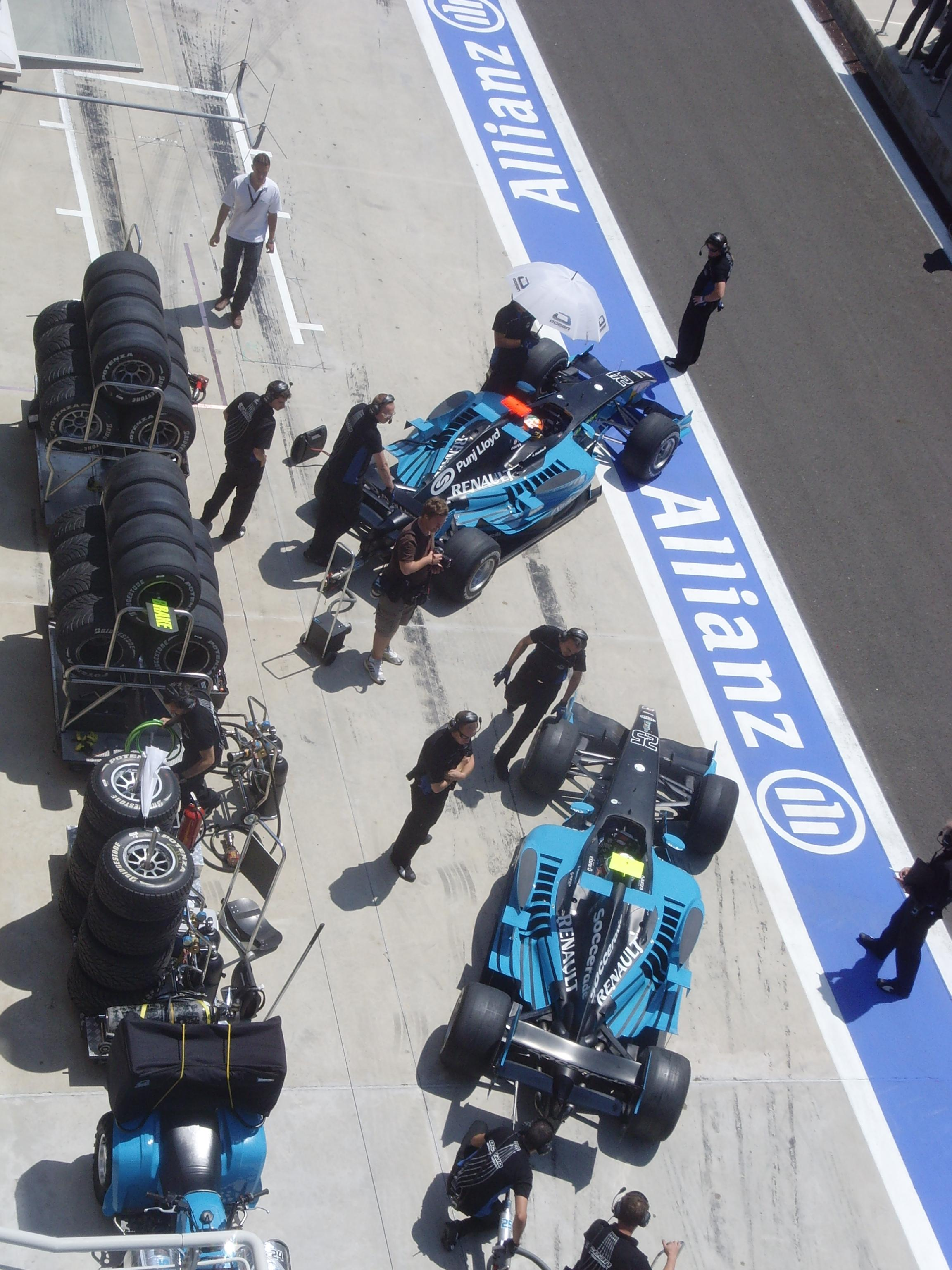 Ocean Racing Technology cars on pit lane of Istanbul Park just before Friday practice session at round 3 of 2009 GP2 Series season